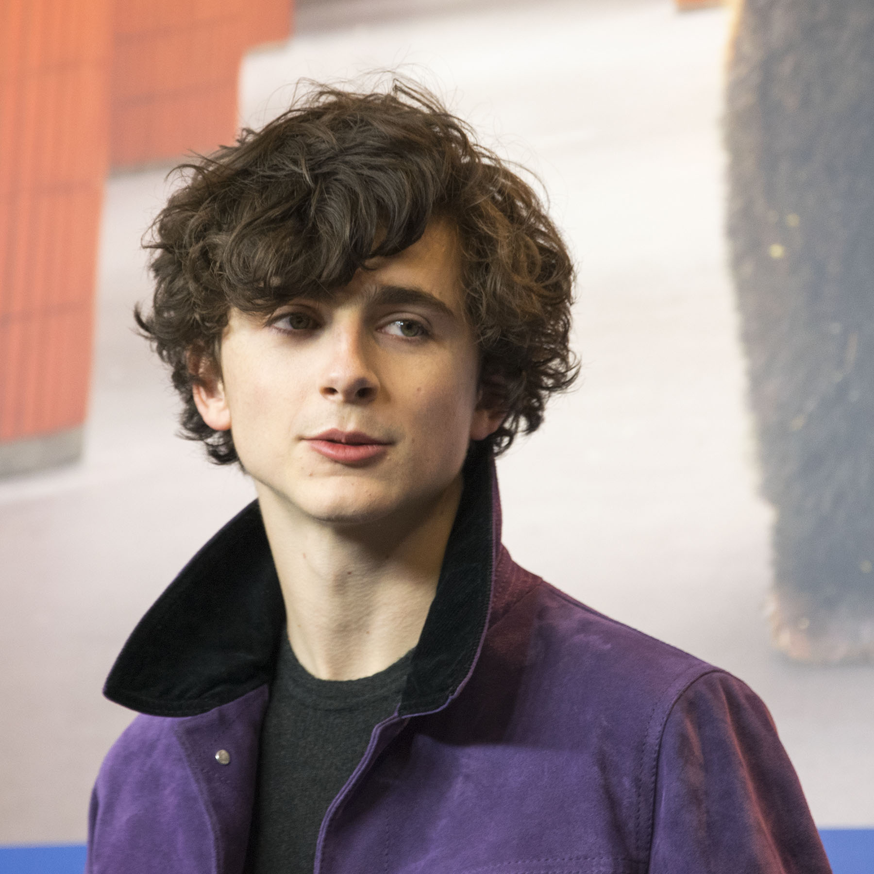 Timothée Chalamet at the press conference of the film Call Me by Your Name at the 2017 Berlin International Film Festival